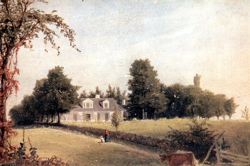 "Lispenard-Rodman-Davenport House"; Date-1814; Medium-Oil;Dimensions-12x16"; Subject-Waterscape, New Rochelle